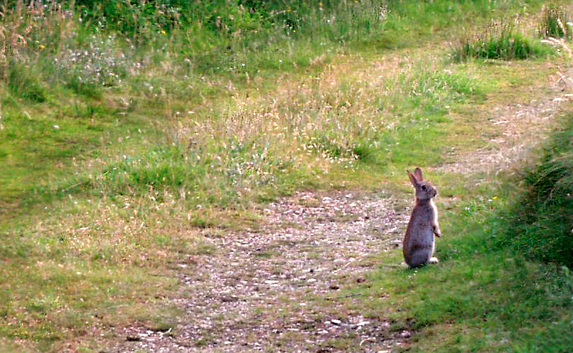 Rabbit (Oryctolagus cuniculus), Fanø, Denmark